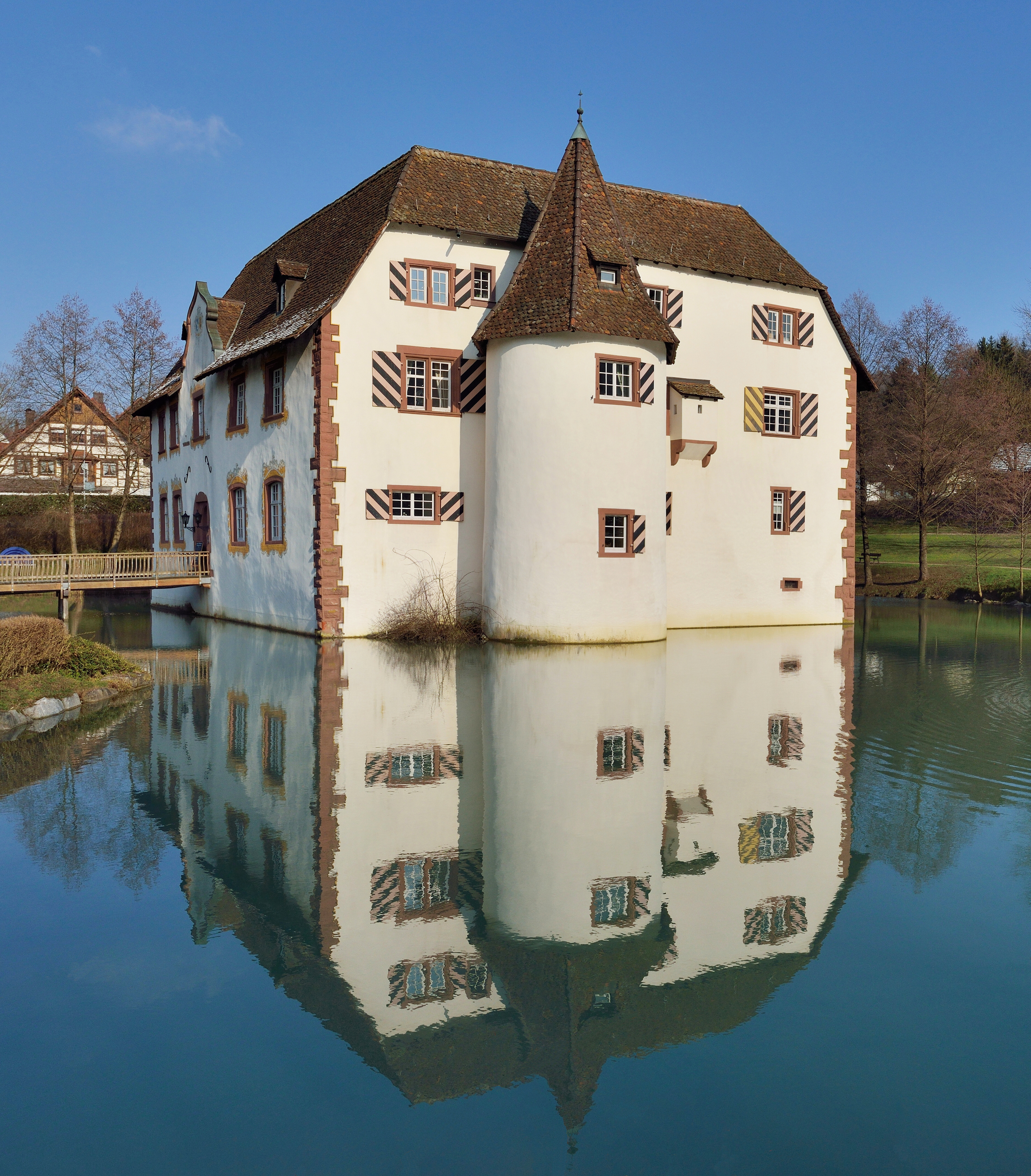 Inzlingen: moated castle